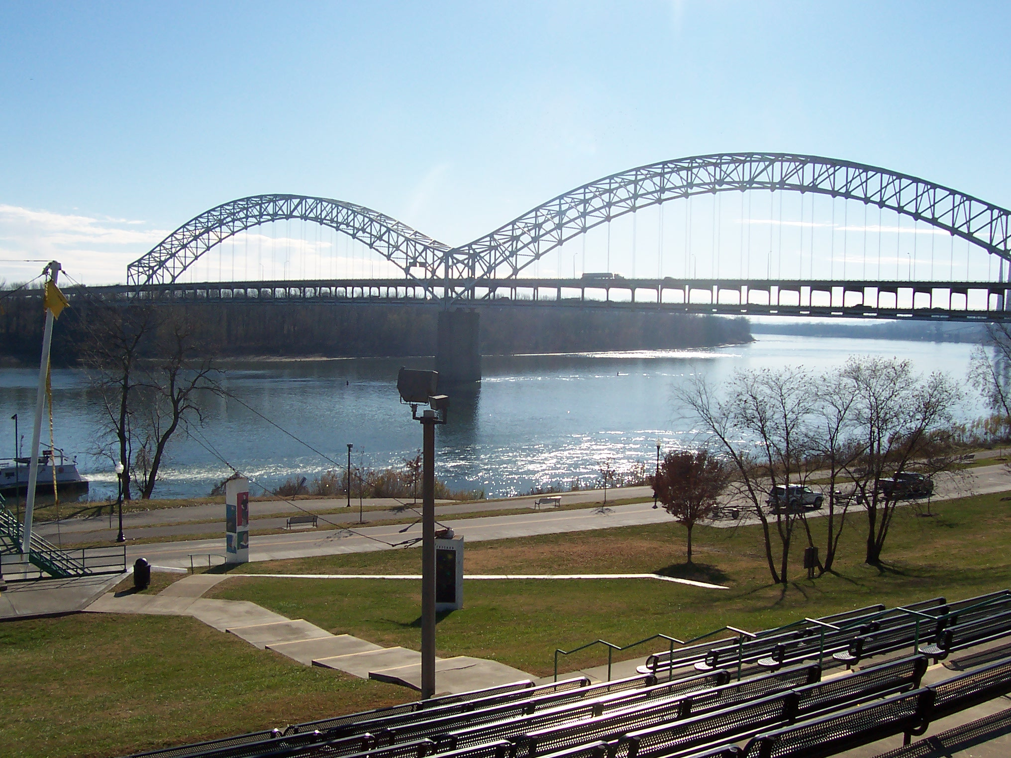 The Sherman Minton Bridgeviewed from the floodwall on the northern shore of the Ohio River in New Albany